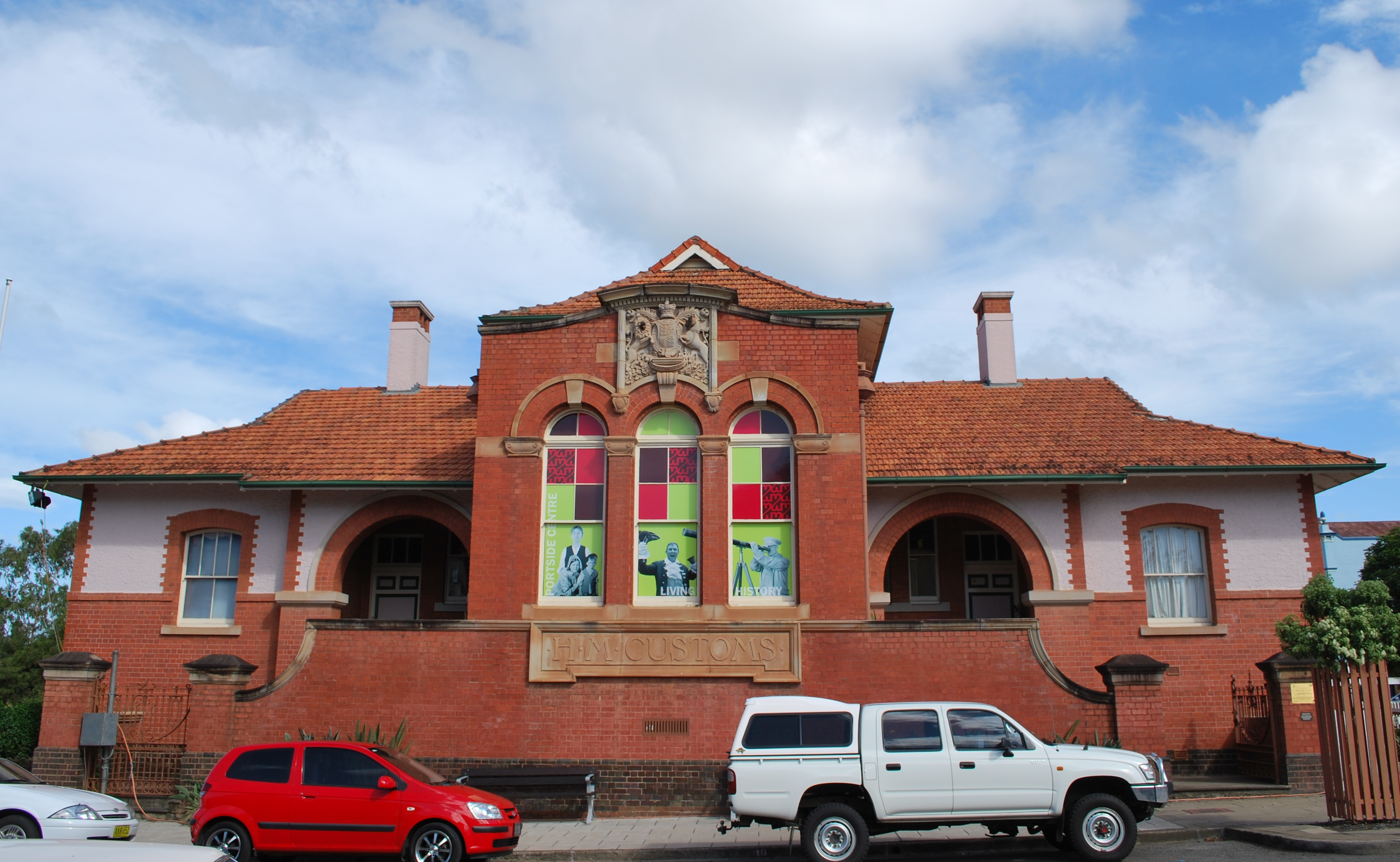 Customs House at Maryborough, Queensland, now a museum